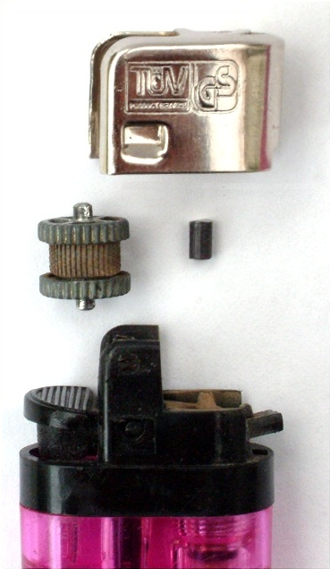 Lighter-details